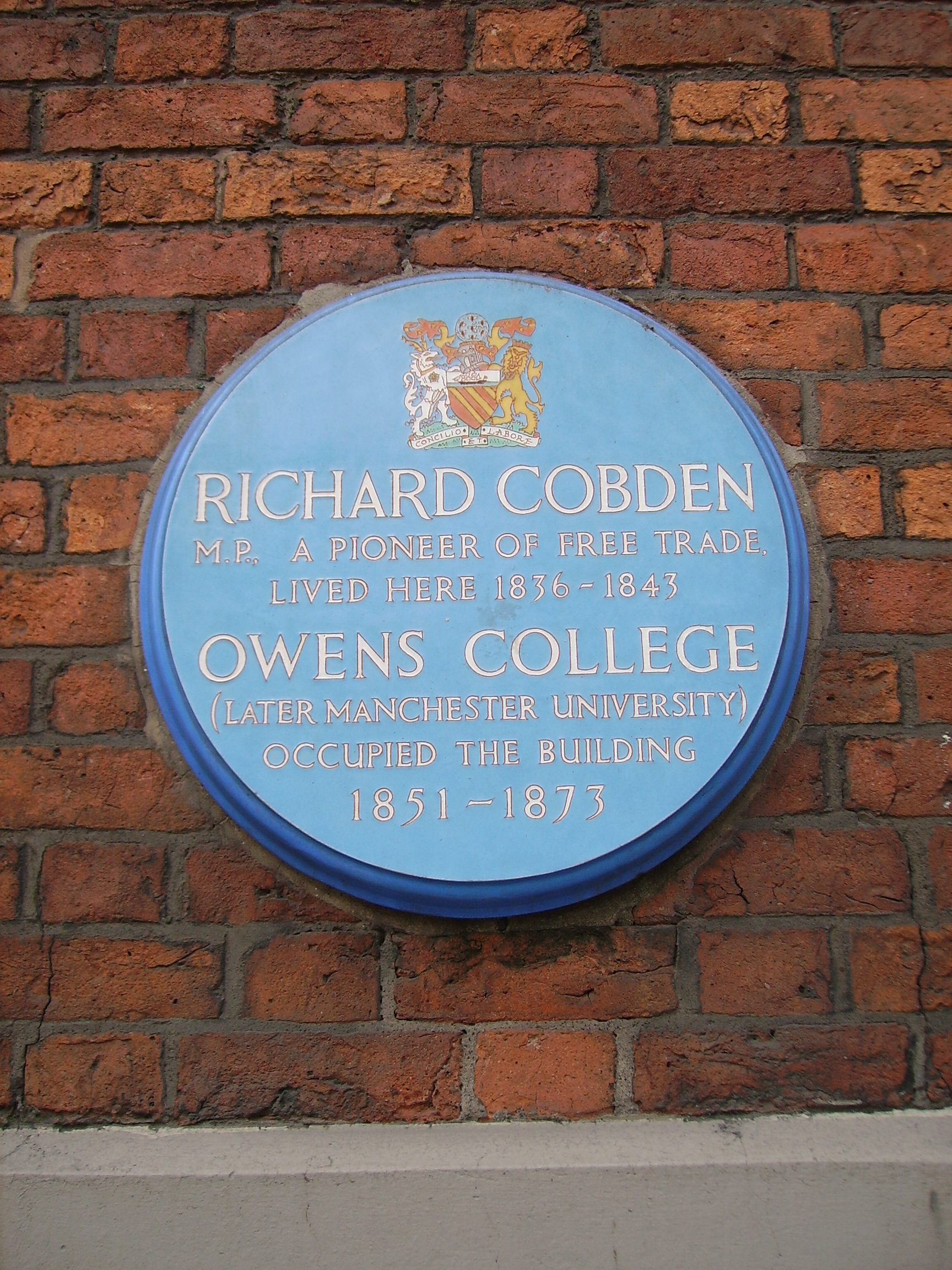 Cobden plaque, former County Court, Quay Street, Manchester